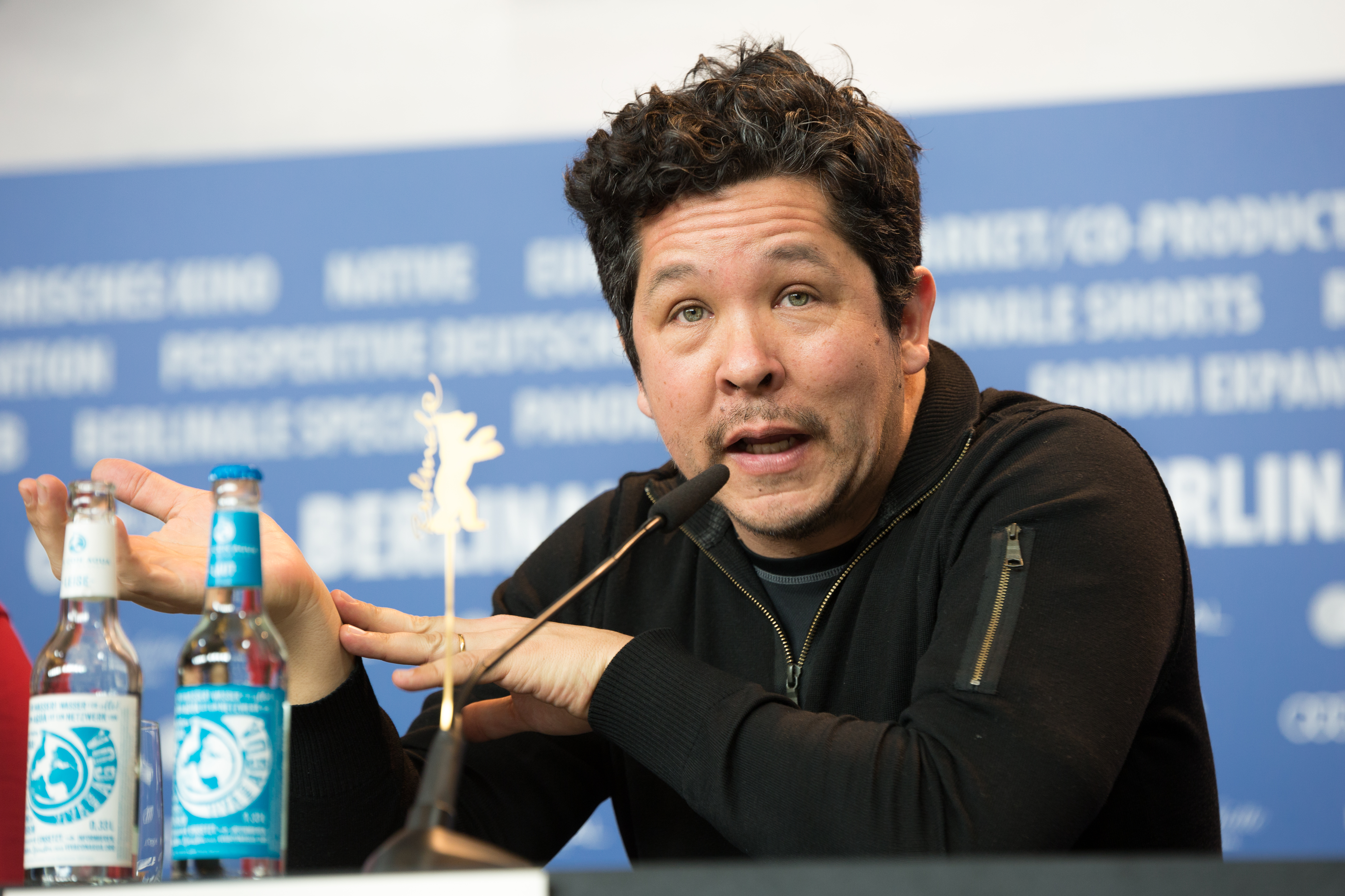 Screenwriter Paul Mayeda Berges presenting Viceroy's House at the Berlinale 2017